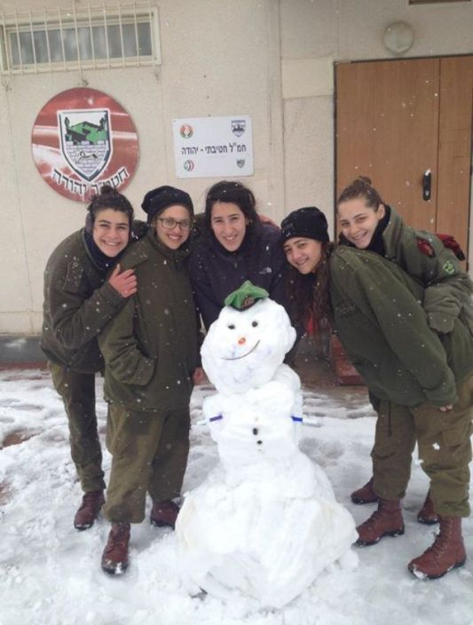 March 02, 2012 This weekend, for the first time in four years, Israel was covered in a blanket of snow from north to south. However, even during these harsh conditions the soldiers of the Judea Brigade stood tall against the snow and maintained relative calm in Judea and Samaria. The Israel Defense Forces Facebook The Israel Defense Forces blog Follow us on Twitter